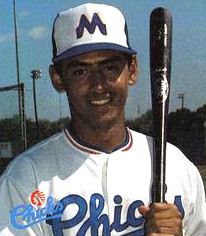 Professional baseball player Chito Martinez